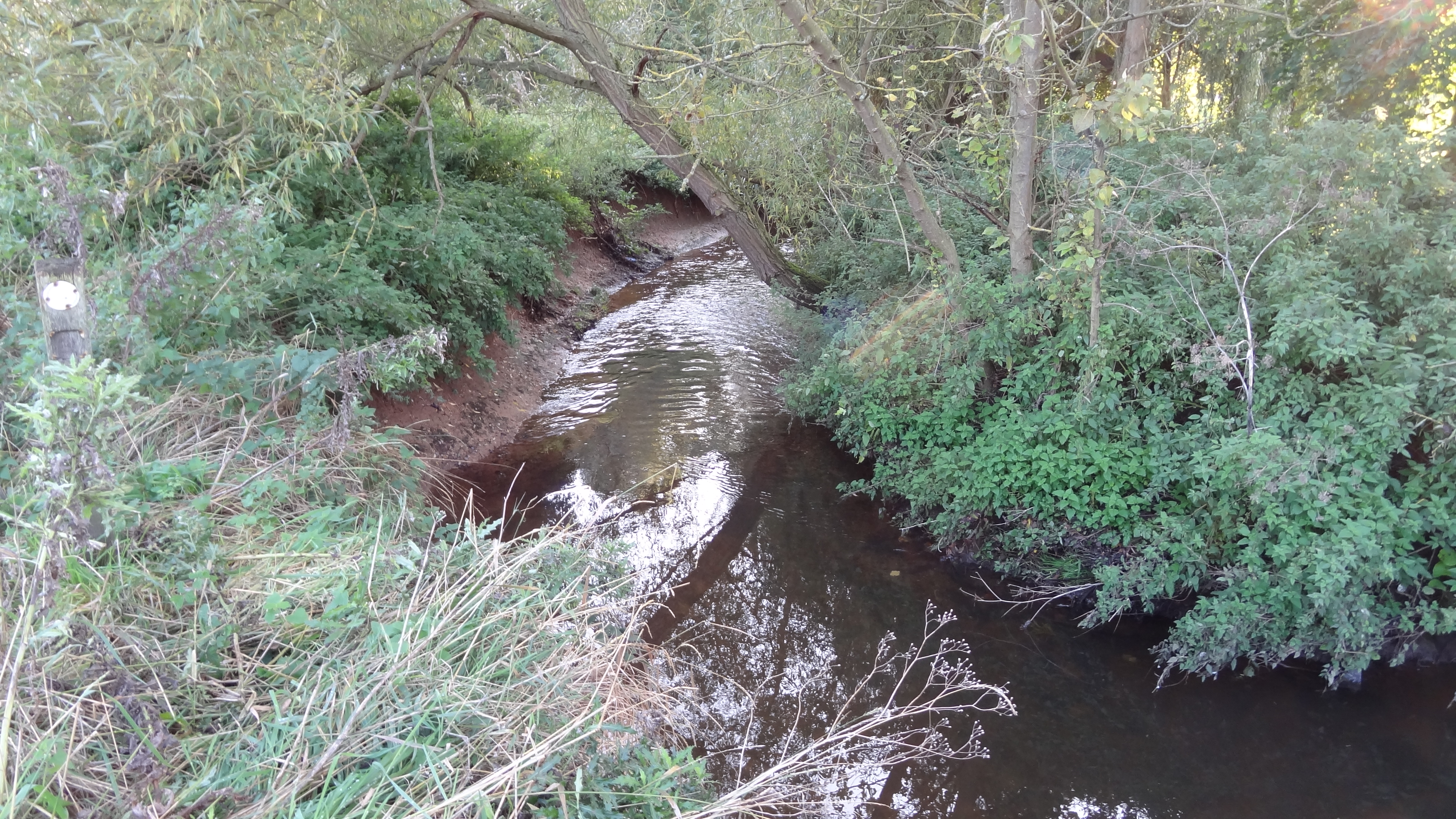 River Ingrebourne from Pages Wood, a Forestry Commission Wood in the London Borough of havering